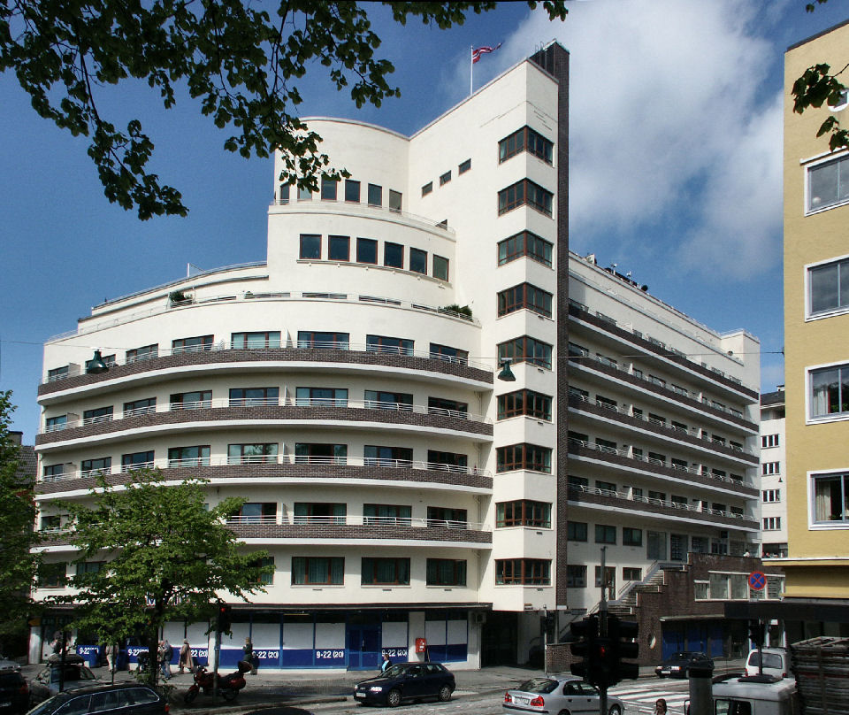 Kalmarhouse, Jon Smørs street 1, Bergen, Norway, Functionalism. Architect Leif Grung.